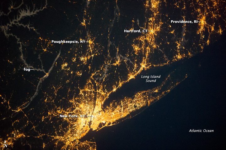 New York City, Southern RI and CT, illuminated at night